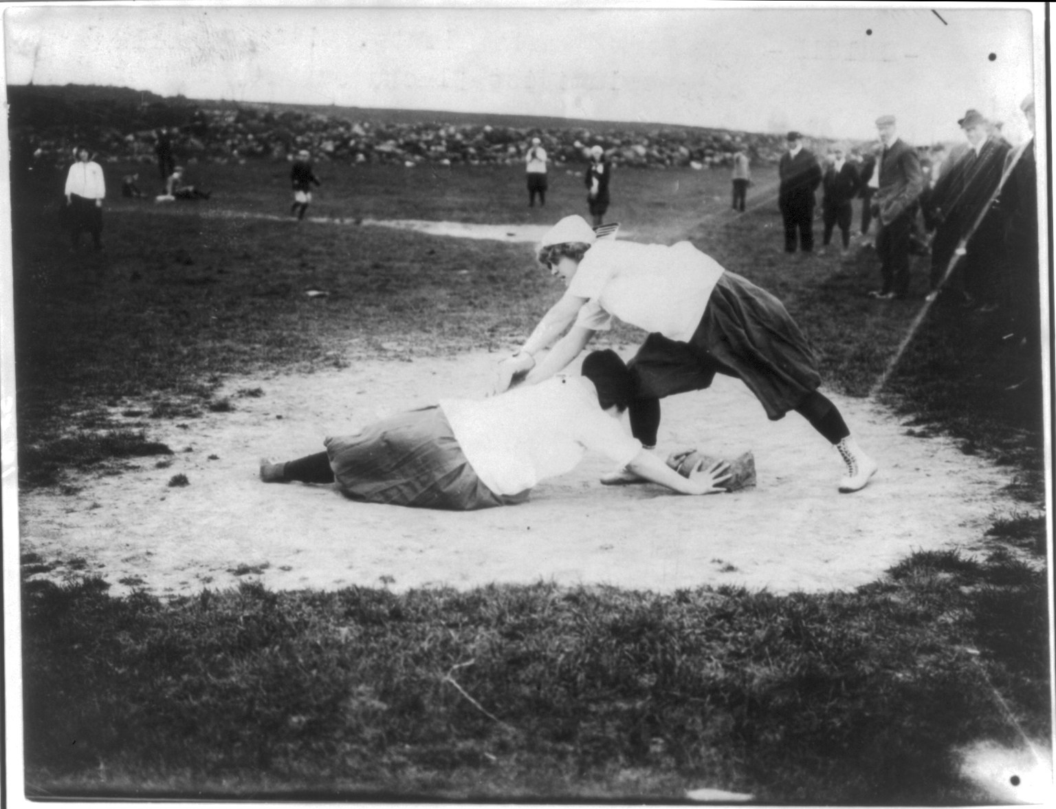 Title: Baseball - New York Female "Giants": Miss Schnall, catcher, and Miss Slachu with hands on home plate Abstract/medium: 1 photographic print.